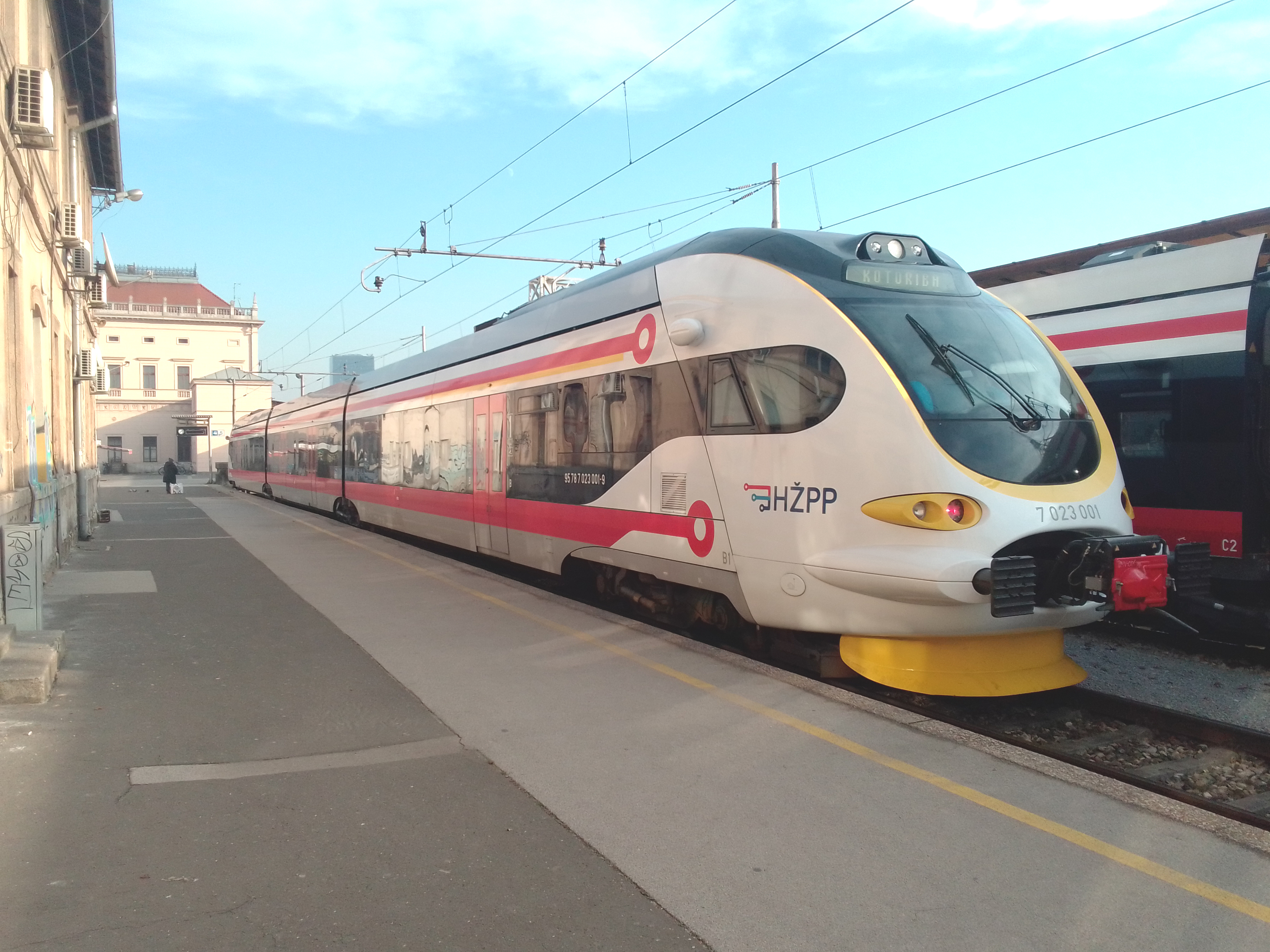 DMU 7023